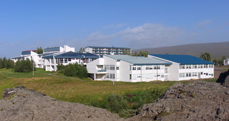 Egilsstadir Upper Secondary School